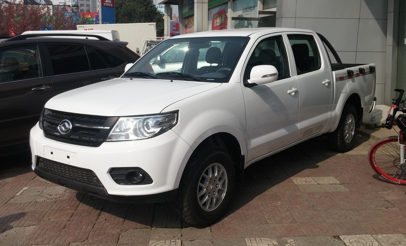 Huanghai N1 photographed in Xi'an, Shaanxi province, China.